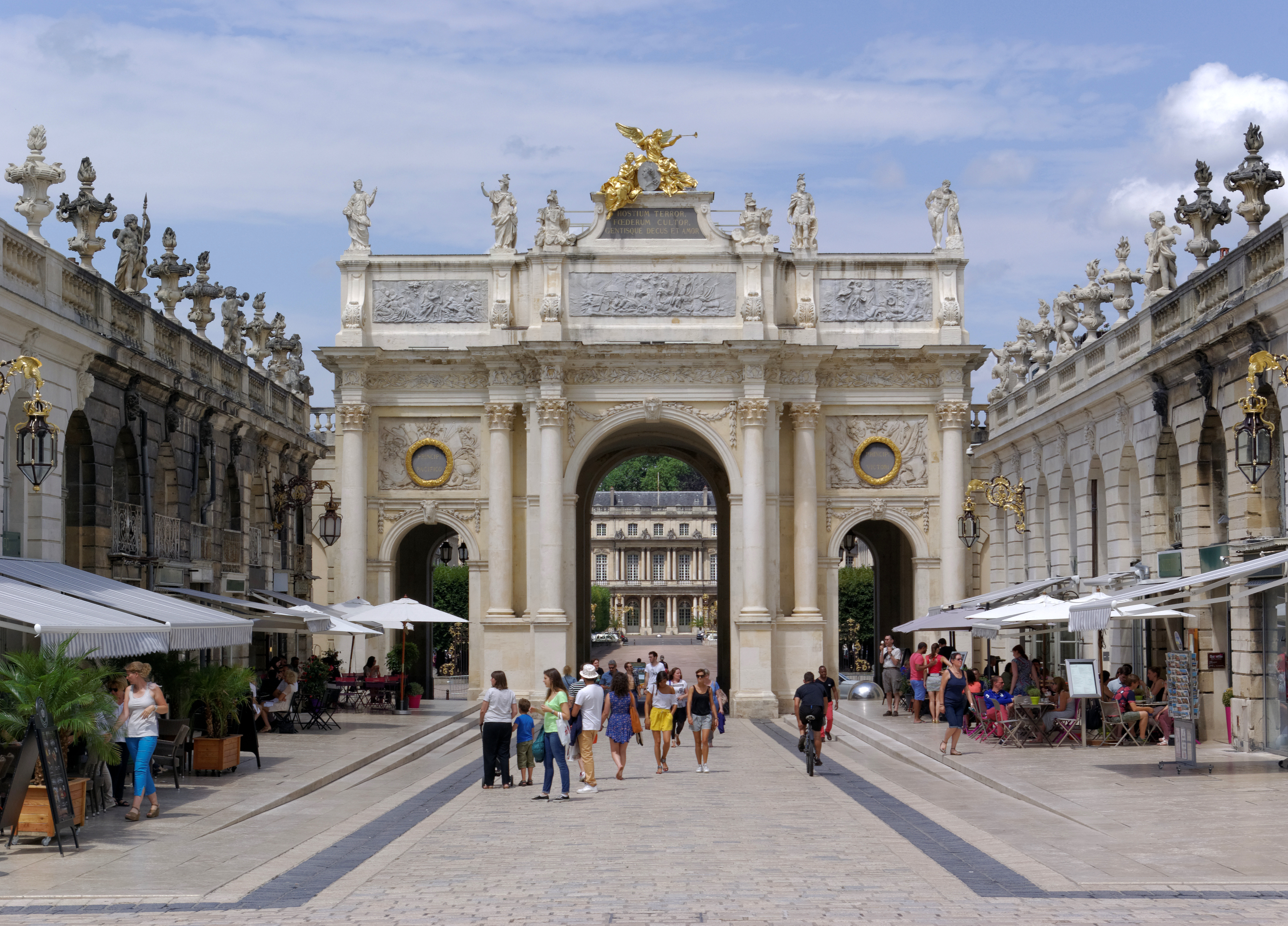 France, Nancy, Porte Héré